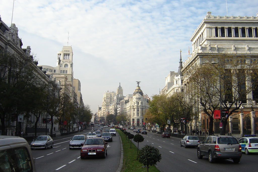 Calle de Alcalá (street) in Madrid (Spain). At the right, the Río de La Plata Bank. In the background, the Metropolis Building (1911).